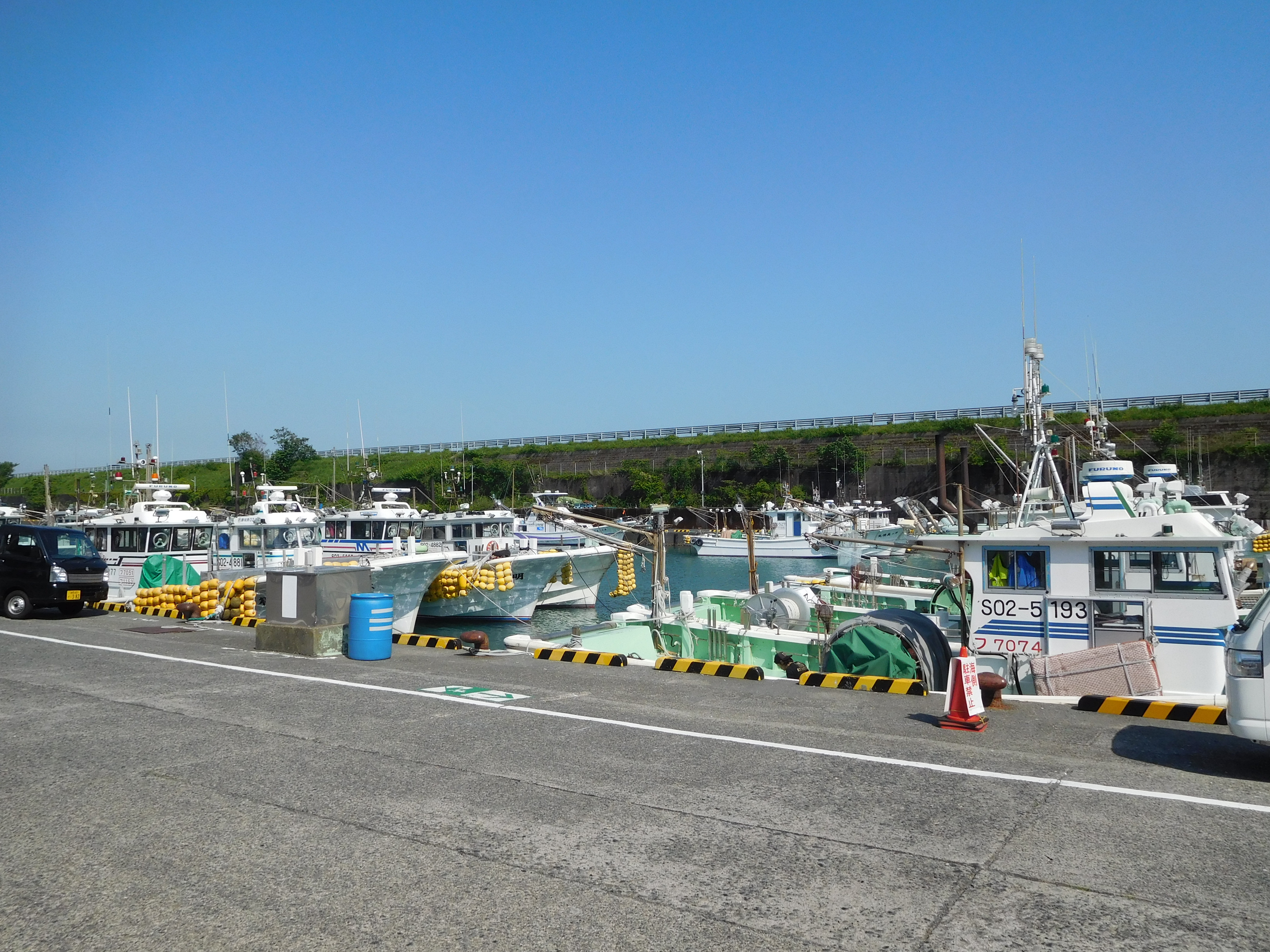 This is the Yui fishing port in Shimizu-ku, Shizuoka city, Shizuoka prefecture, Japan. It is a place of Sergia lucens (Sakura shrimp) production.